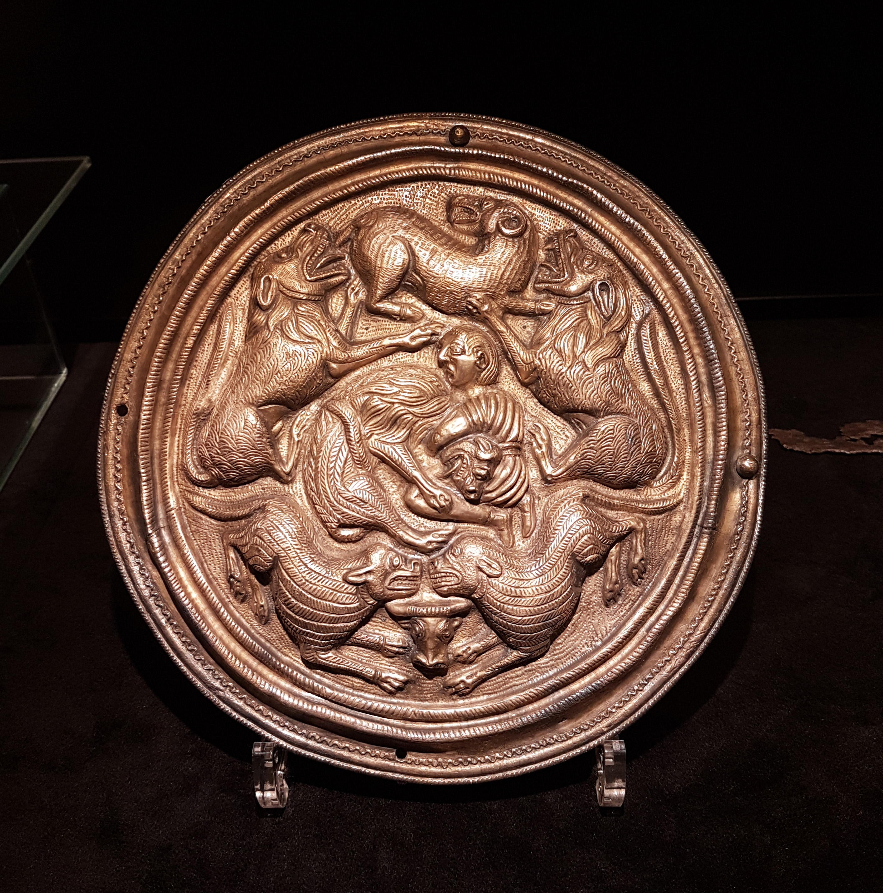 Ornamental Thracian disc (100 BC - 1 AD; replica) found in Helden, Limburg, the Netherlands. Collection of the Rijksmuseum van Oudheden, Leiden. Photographed at the temporary exhibition Top or Topic in Centre Céramique in Maastricht.